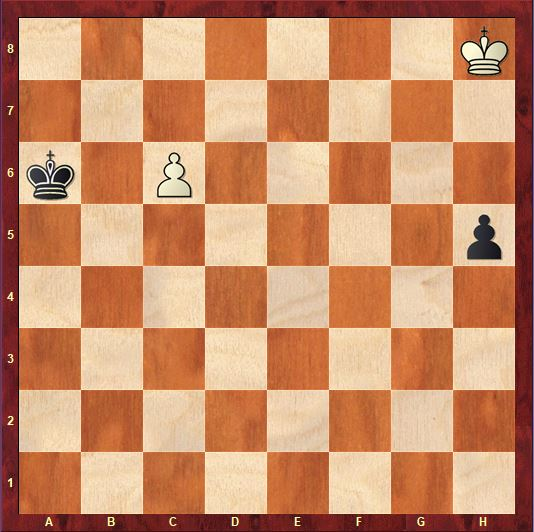 A very famous endgame study by Richard Reti where white can draw despite a seemingly hopeless position.